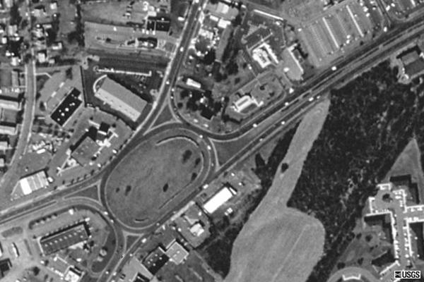 Aerial image of Flemington Circle, a traffic circle in Flemington, New Jersey